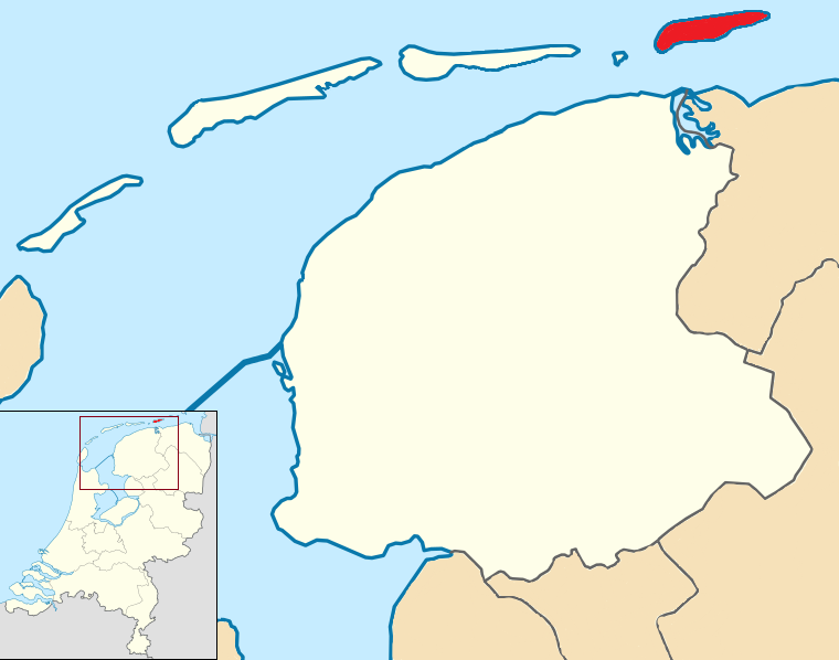 Schiermonnikoog, island and municipality in Friesland, Netherlands, 2018